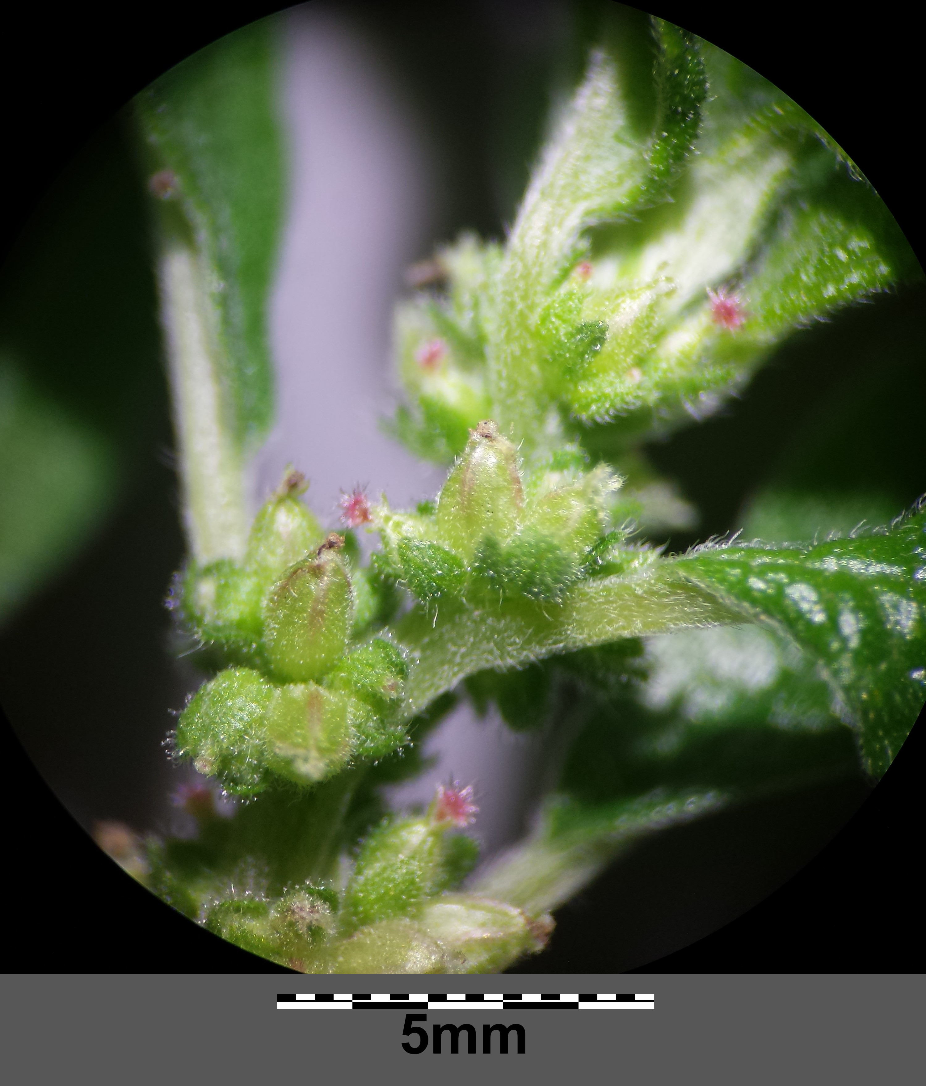 Inflorescence with ♀ flowers Taxonym: Parietaria officinalis ss Fischer et al. EfÖLS 2008 ISBN 978-3-85474-187-9 Location: Wasserpark, Vienna-Floridsdorf - ca. 160 m a.s.l. Habitat: border of a shrubbery